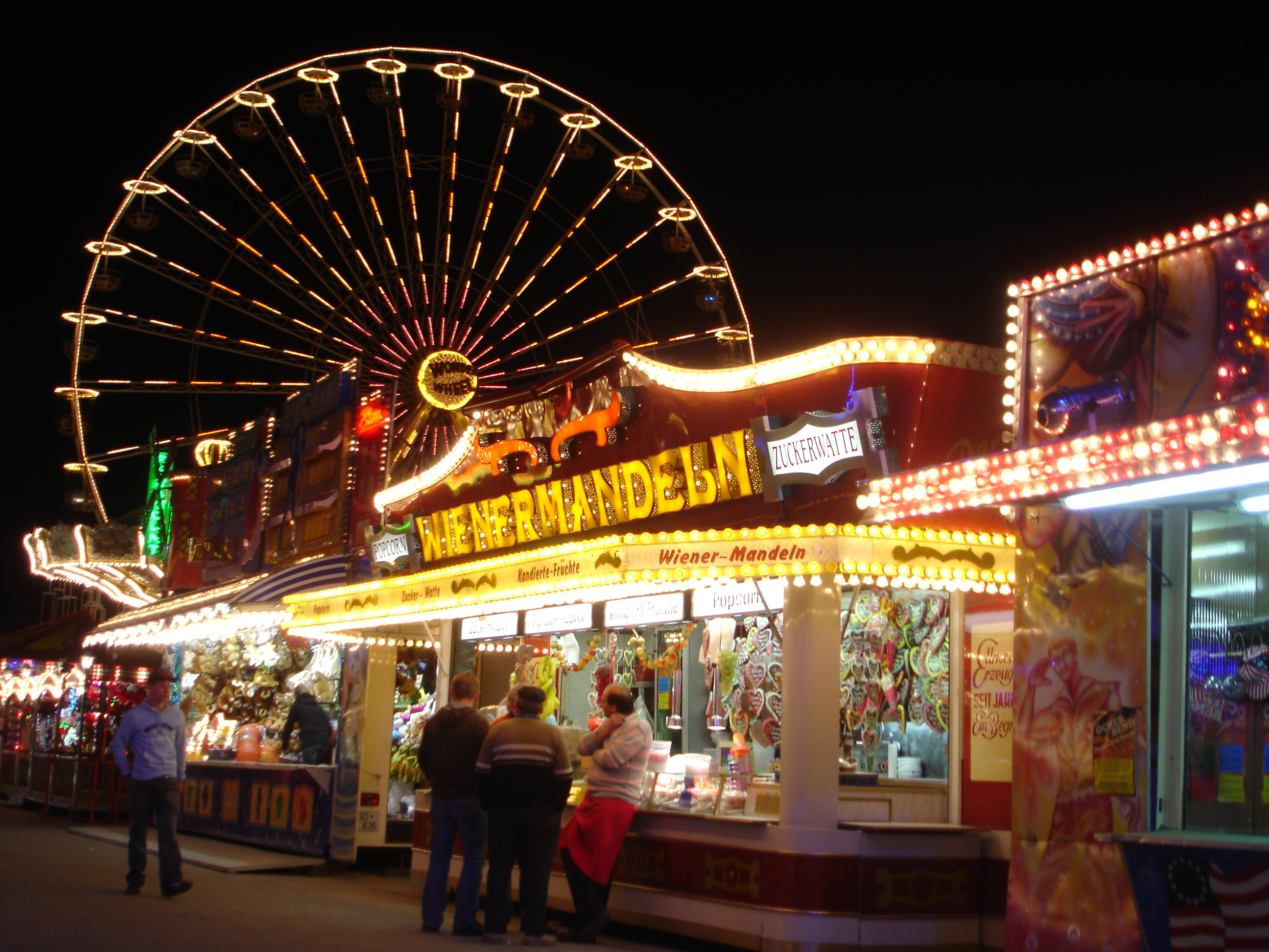 A place selling roasted almonds and a Big Wheel in the background at the Öcher Bend festival at Aachen, Germany.